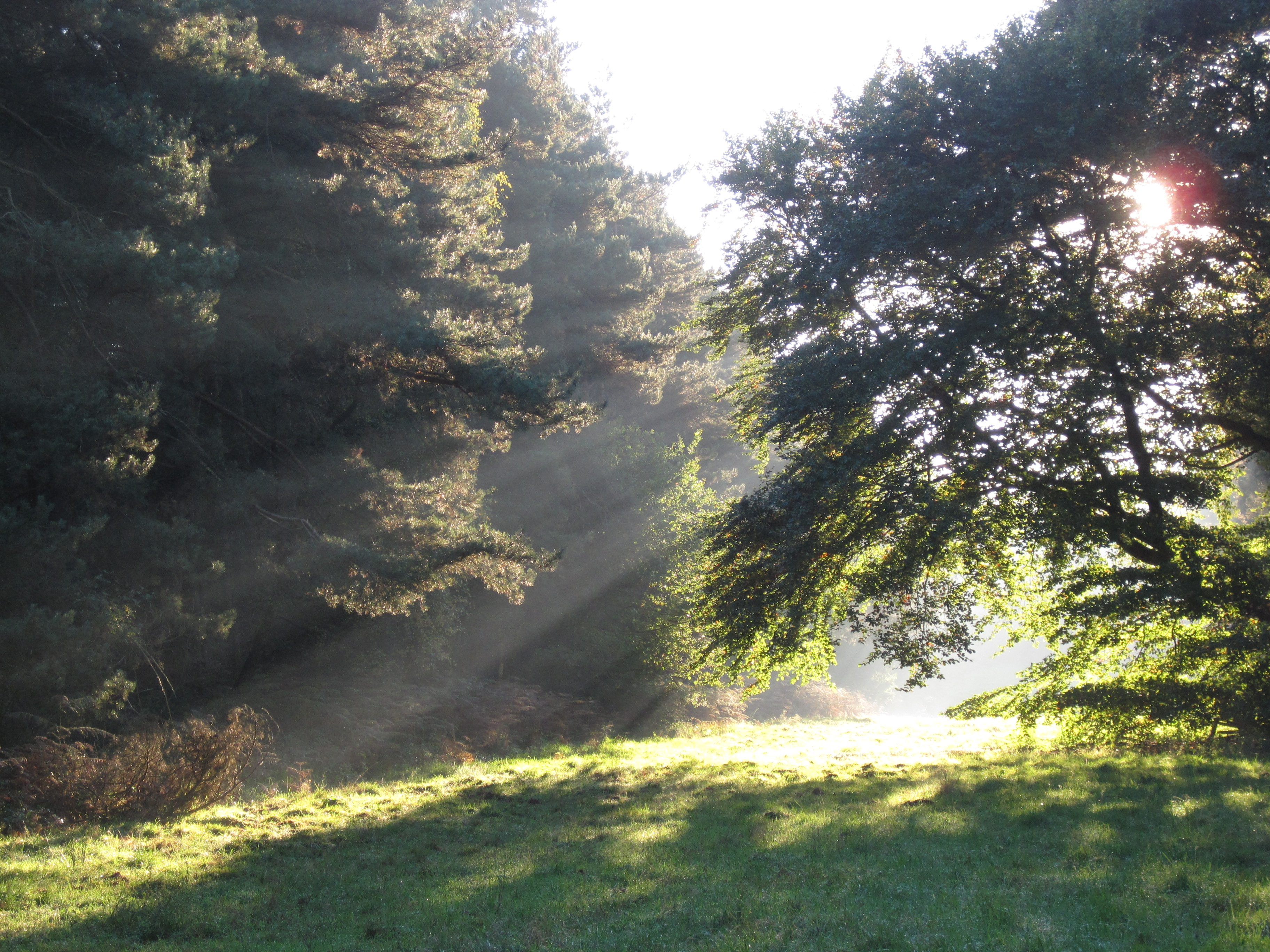 Forest clearing, Reichswald near Kleve, Germany